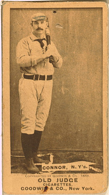 Roger Connor baseball card